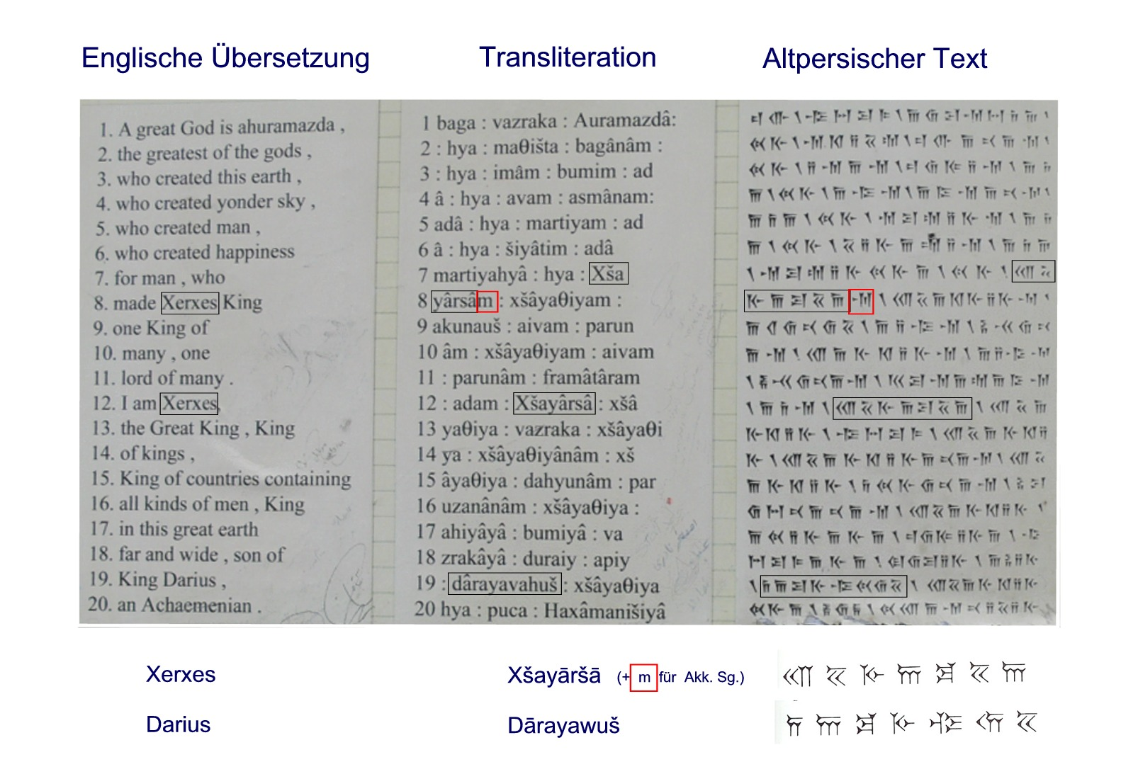 Transliteration and translation of the Old Persian Xerxes inscription at Ganj Nameh near Hamadan (Iran)